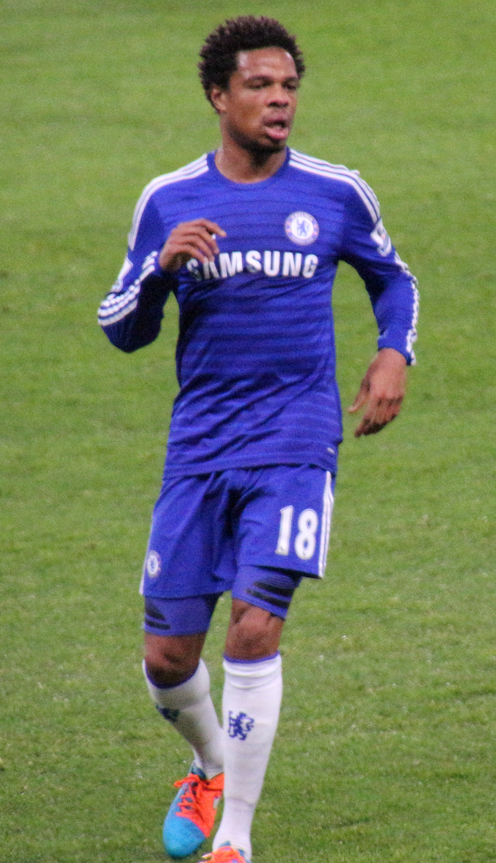 Chelsea 2 West Brom 0 The Blues go marching on